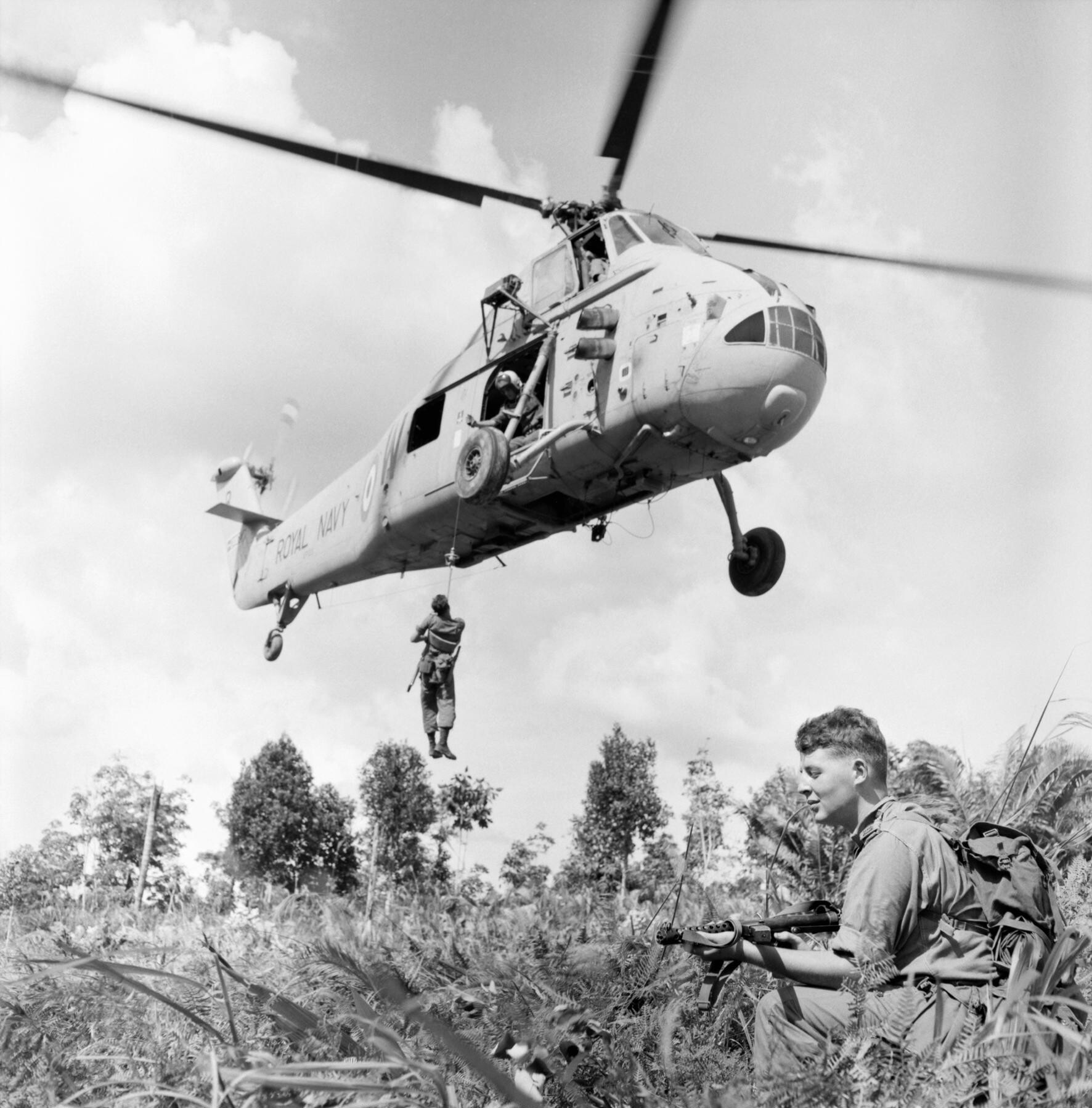 While operating in Borneo during the Indonesian Confrontation, a soldier is winched up to a Westland Wessex HAS3 of 845 Naval Air Squadron, during operations in the jungle. A soldier is kneeling on the edge of the extraction zone.